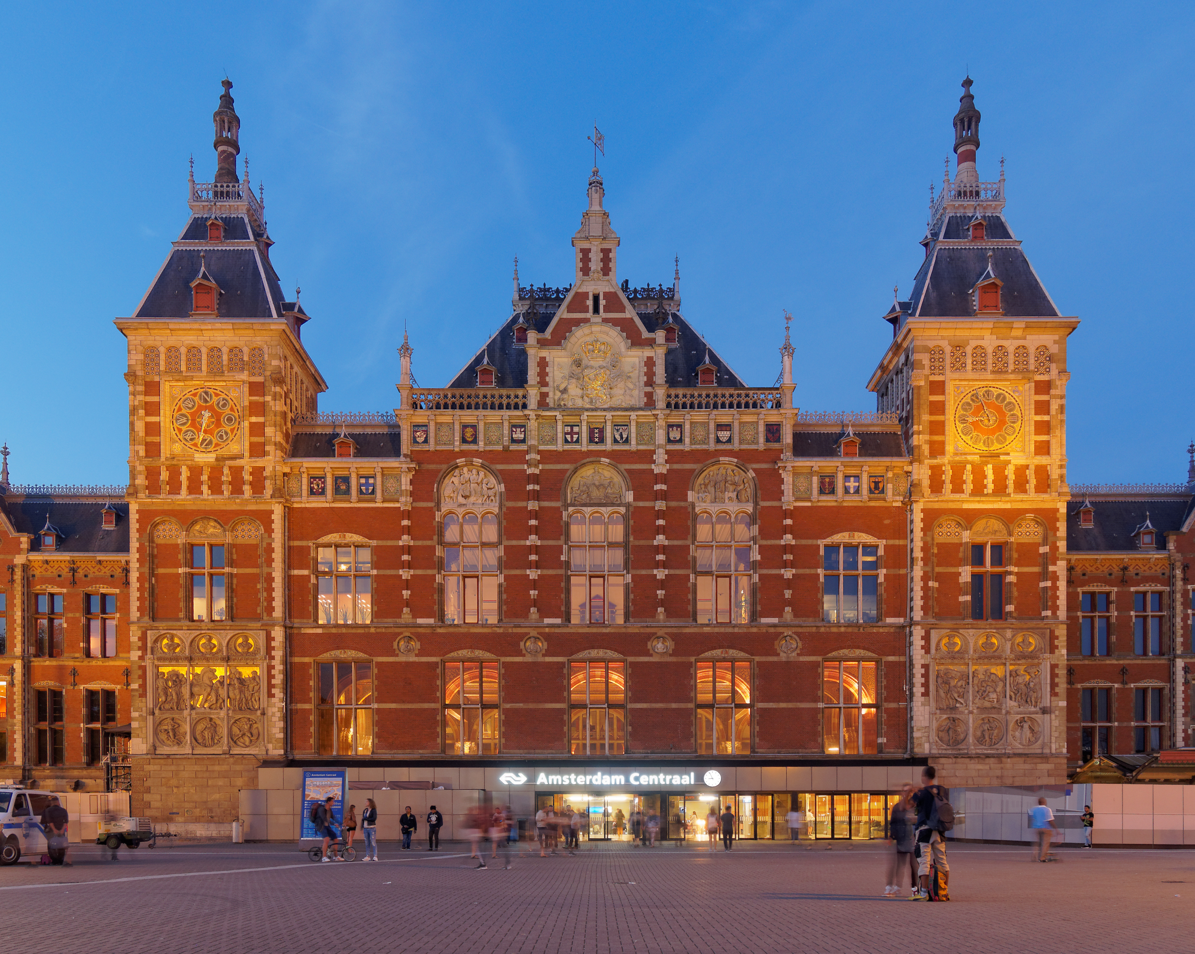 The facade of Amsterdam Central Station at the evening.